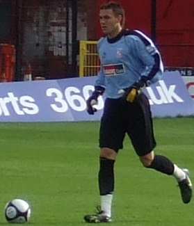 Lenny Pidgeley.